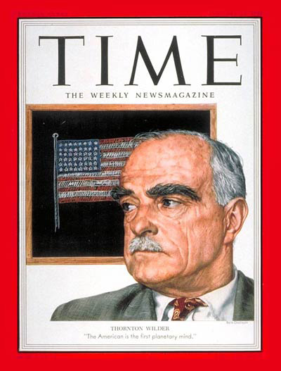 Time magazine, Volume 61 Issue 2. Front cover is an illustration of Thornton Wilder.